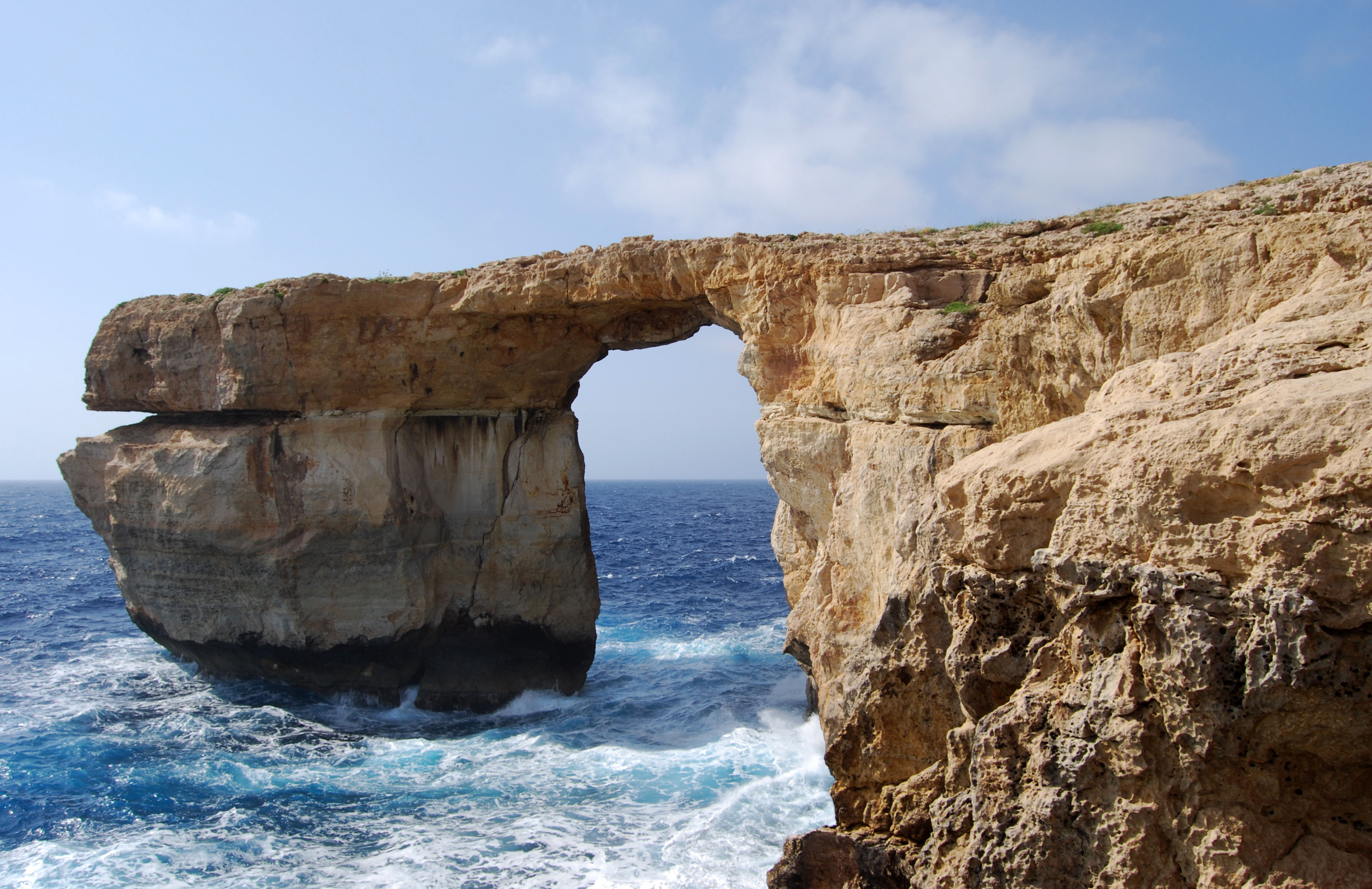 The natural arch Azure Window near San Lawrenz, Gozo.